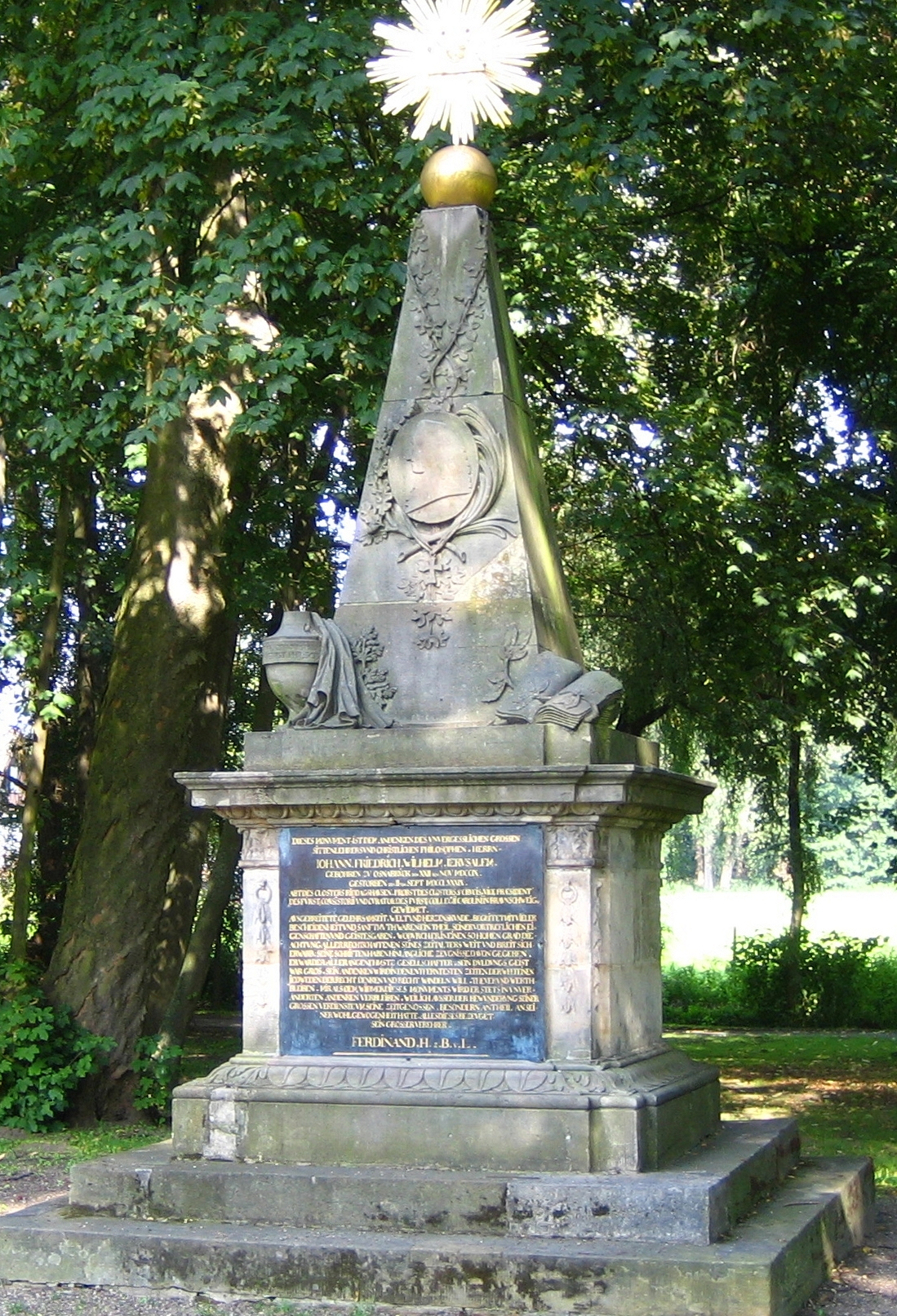 Abt Jerusalem Memorial in Vechelde palace garden, Lower Saxony, Germany.